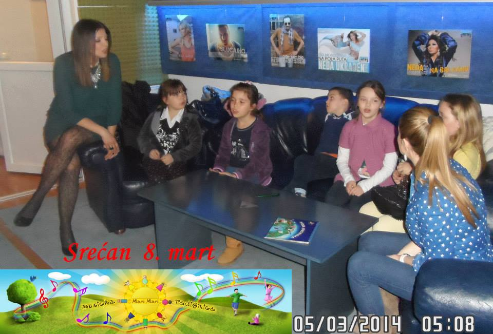 Снимање песме у студију